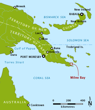 Map indicating location of Milne Bay within Papua andisland of New Guinea, also relative to Australia.